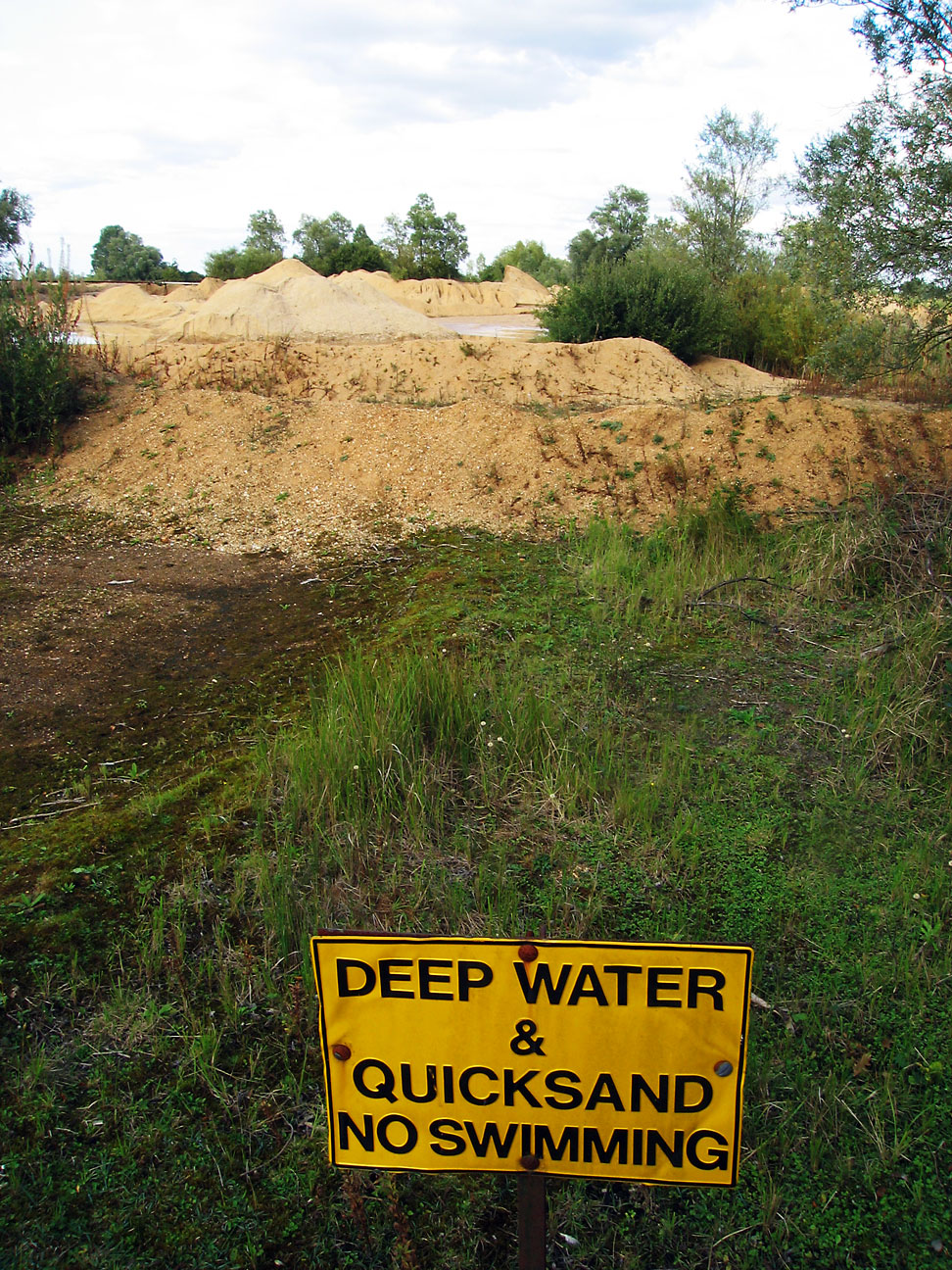 Quicksand warning sign at Little Paxton Pits near St Neots, Cambridgeshire, England.